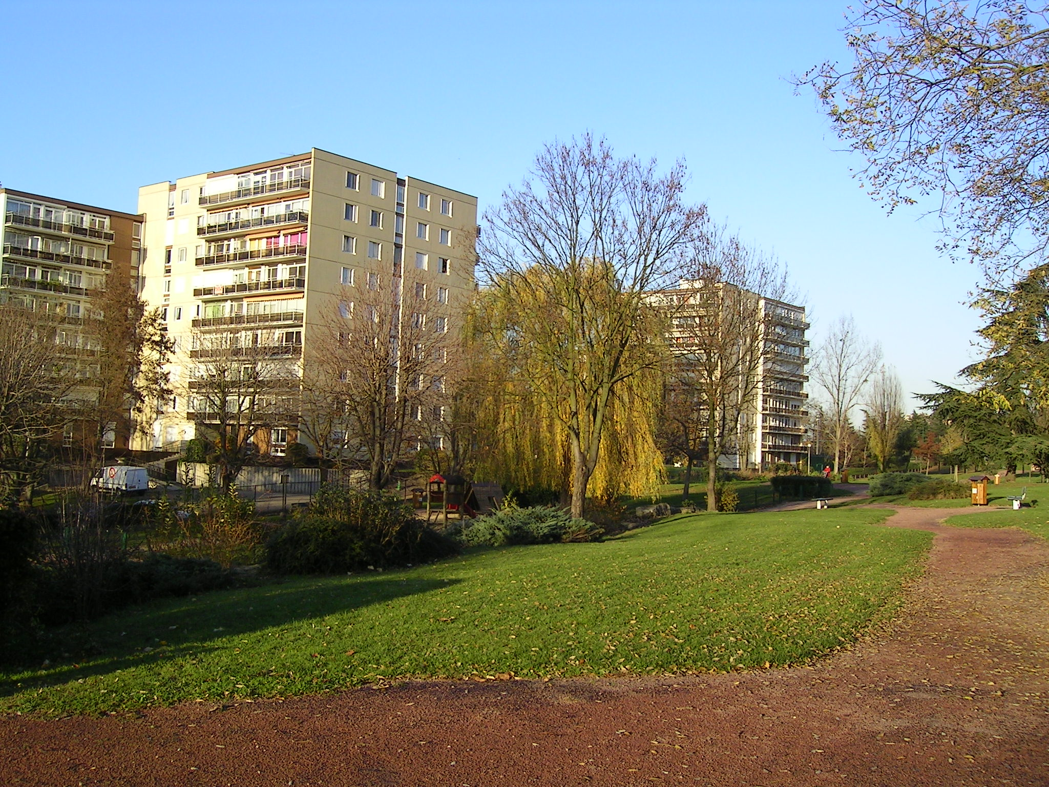 Livry-Gargan (France) - Parc Vincent-Auriol - Novembre 2006 Photo personnelle (own work) de Marianna